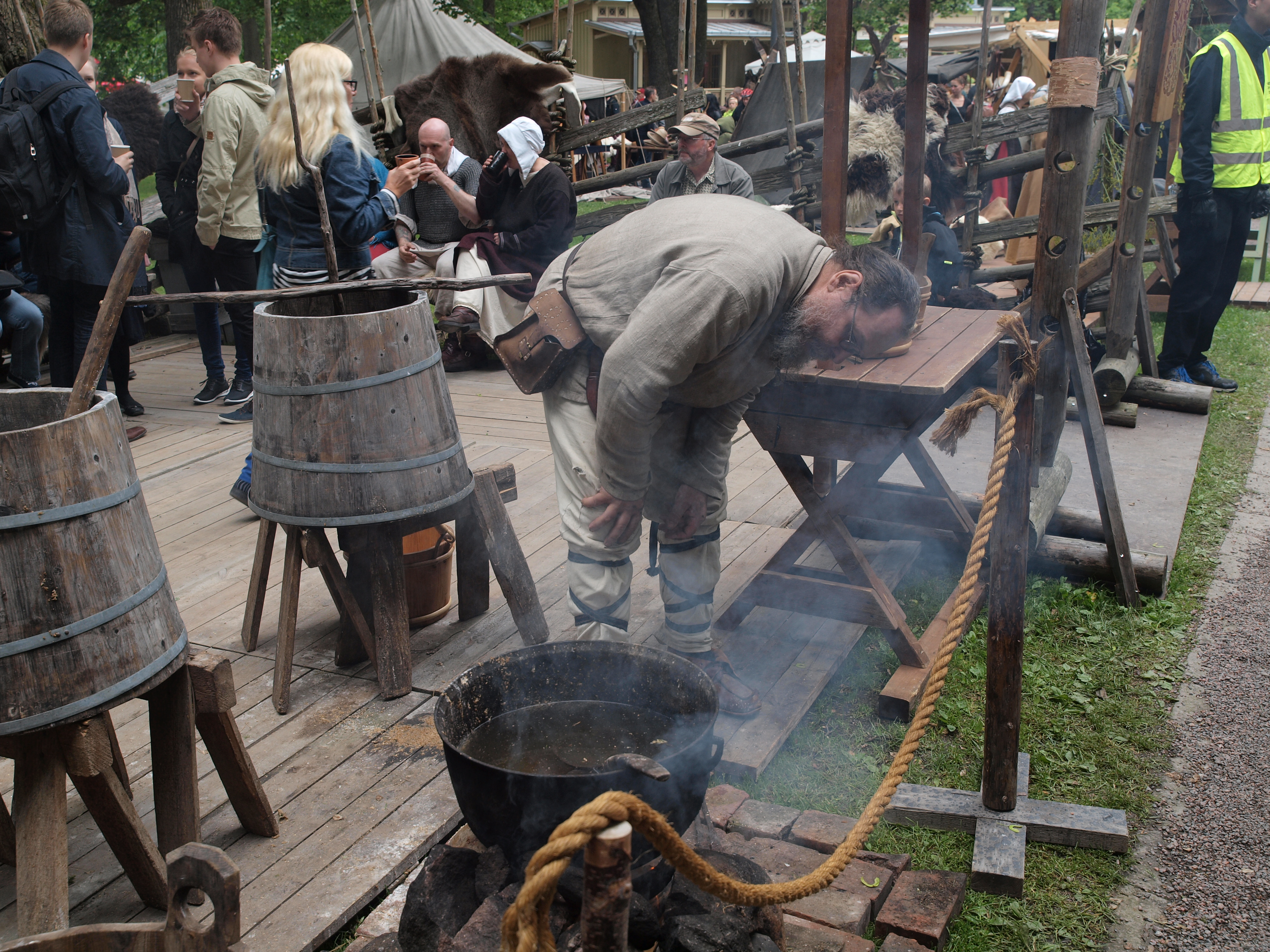 A man dressed in a Medieval costume, brewing sahti, a special very strong Finnish beer, at the Turku Medieval market in central Turku, Finland Proper (I still refuse to call it "Southwest Finland"), Finland. The sahti is being brewed in the black cauldron in front of the man.